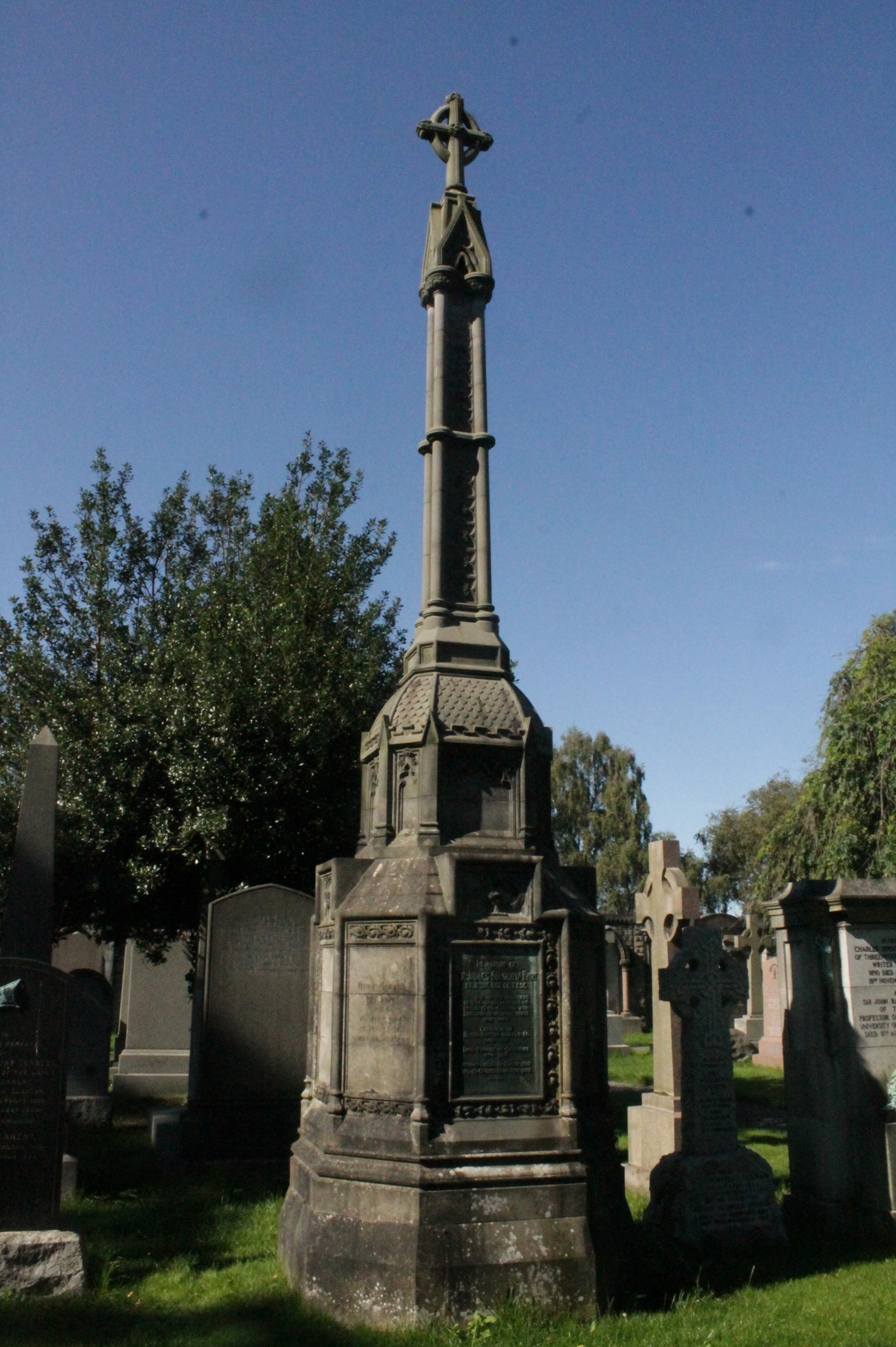 The grave of Sir James Falshaw Bt., Dean Cemetery